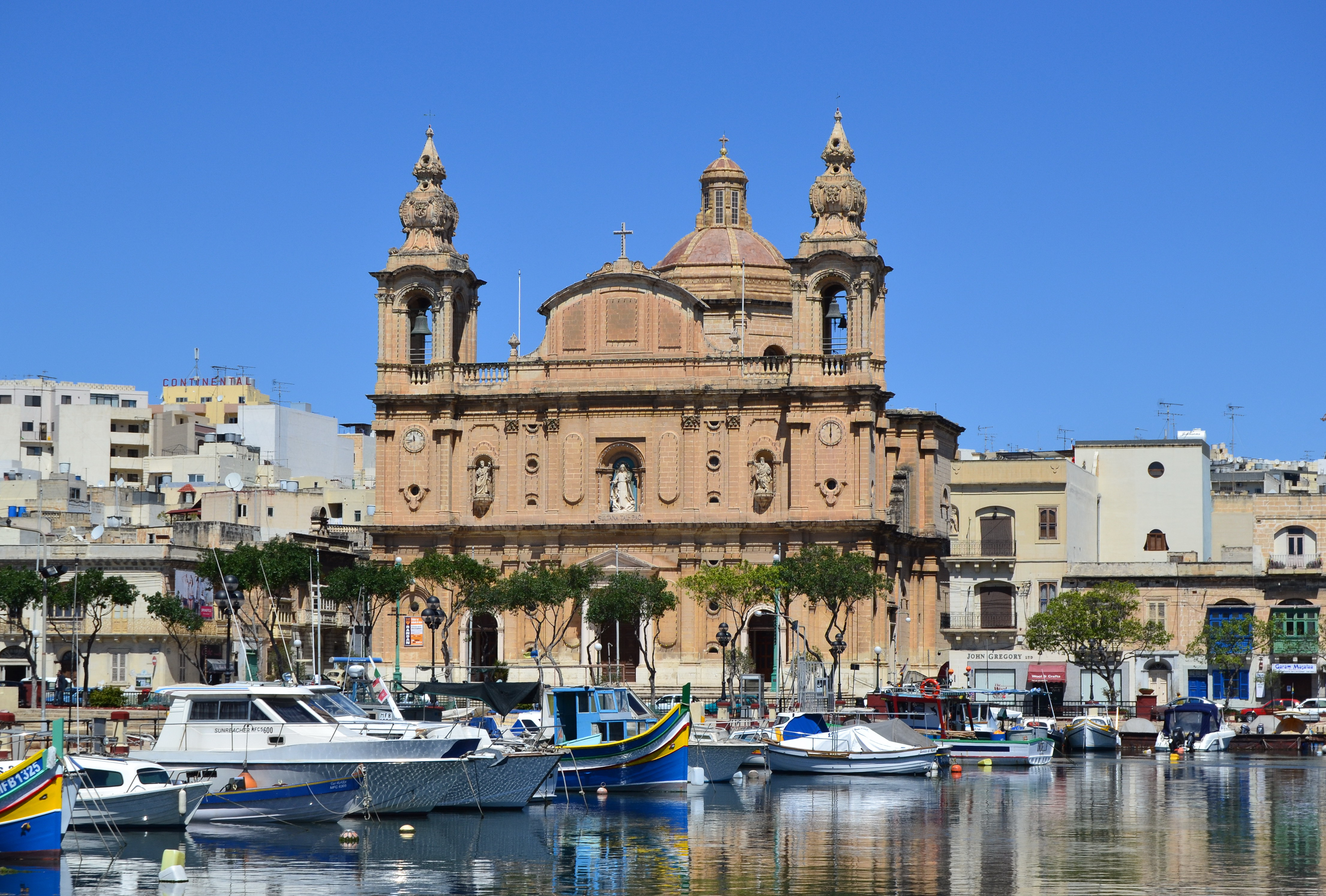 Msida, Parish church, Malta